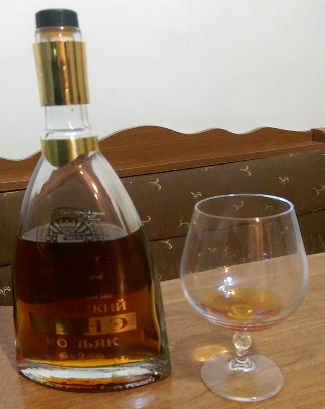 Mane brandy, Proshyan brandy factory, Armenia